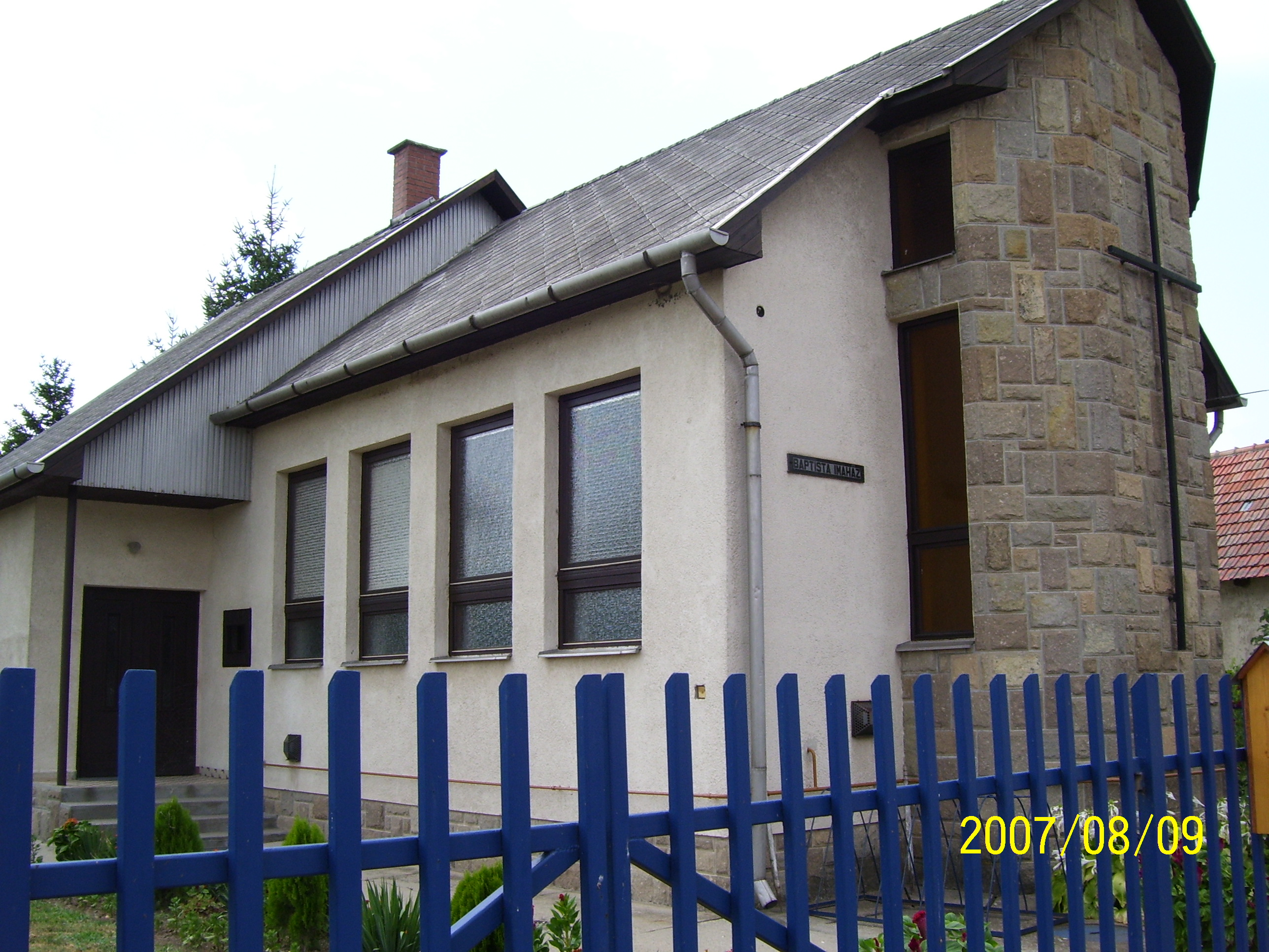 Baptist's temple in Tard